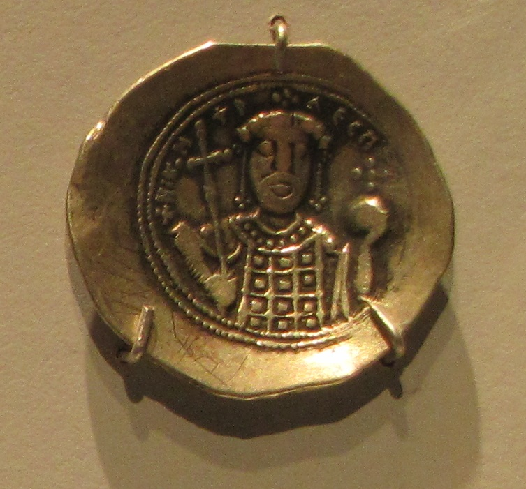 Gold coin of Nikephoros III Botaneiates